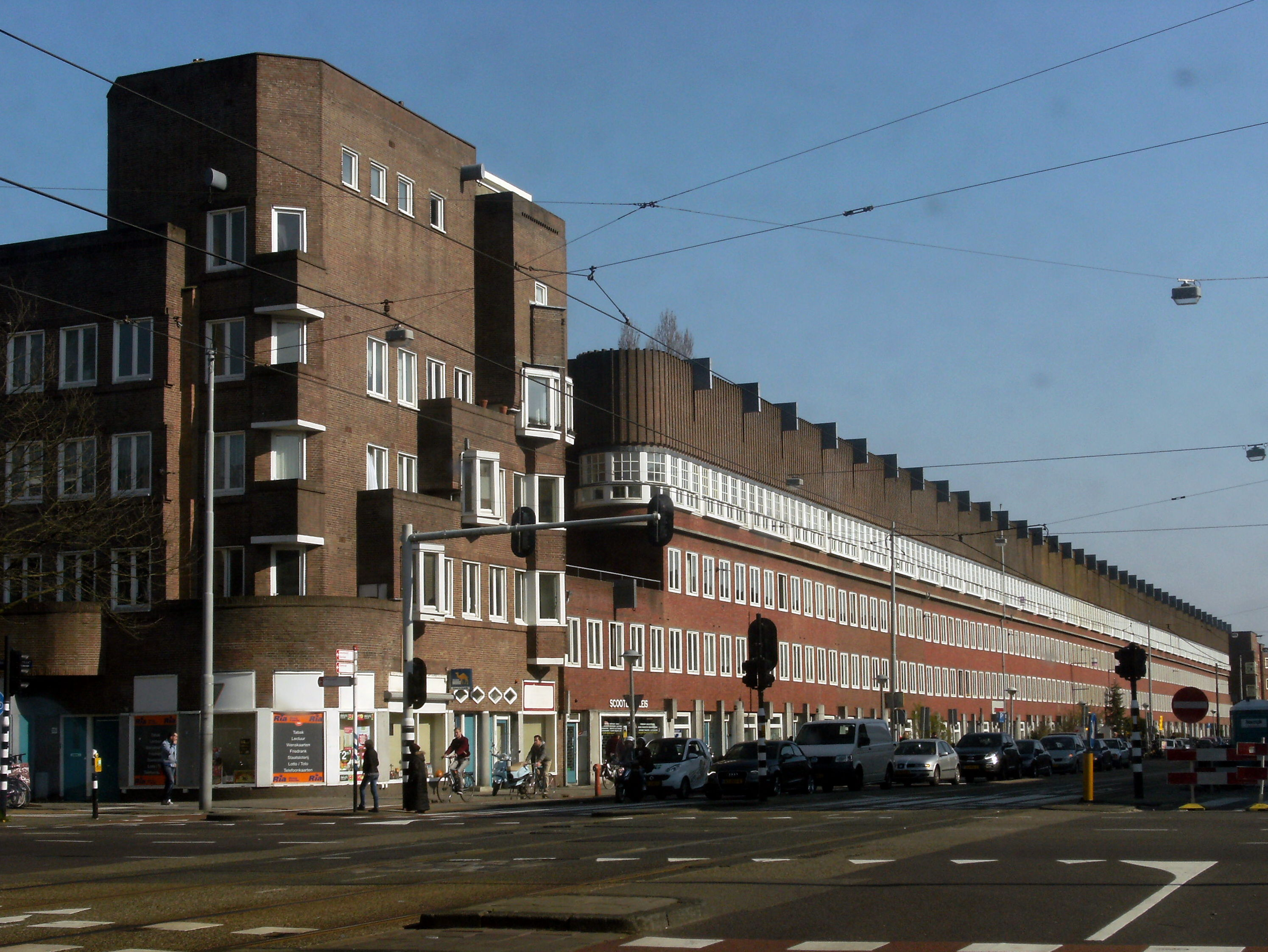 Plan West Amsterdam 1922-1927, Hoofdweg / Jan van Galenstraat. Architecture left: Jo van der Mey (1878-1949), right: H.Th. Wijdeveld (1885-1987).